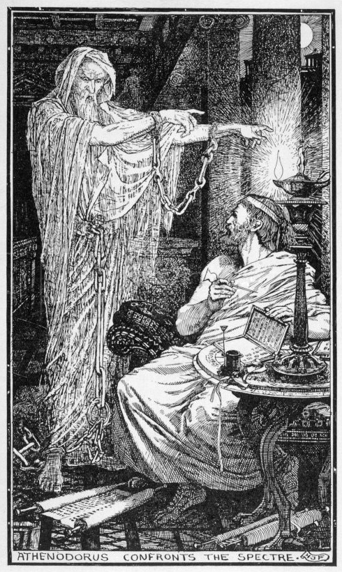 Henry Justice Ford - The Greek Stoic Philosopher Athenodorus Rents a Haunted House